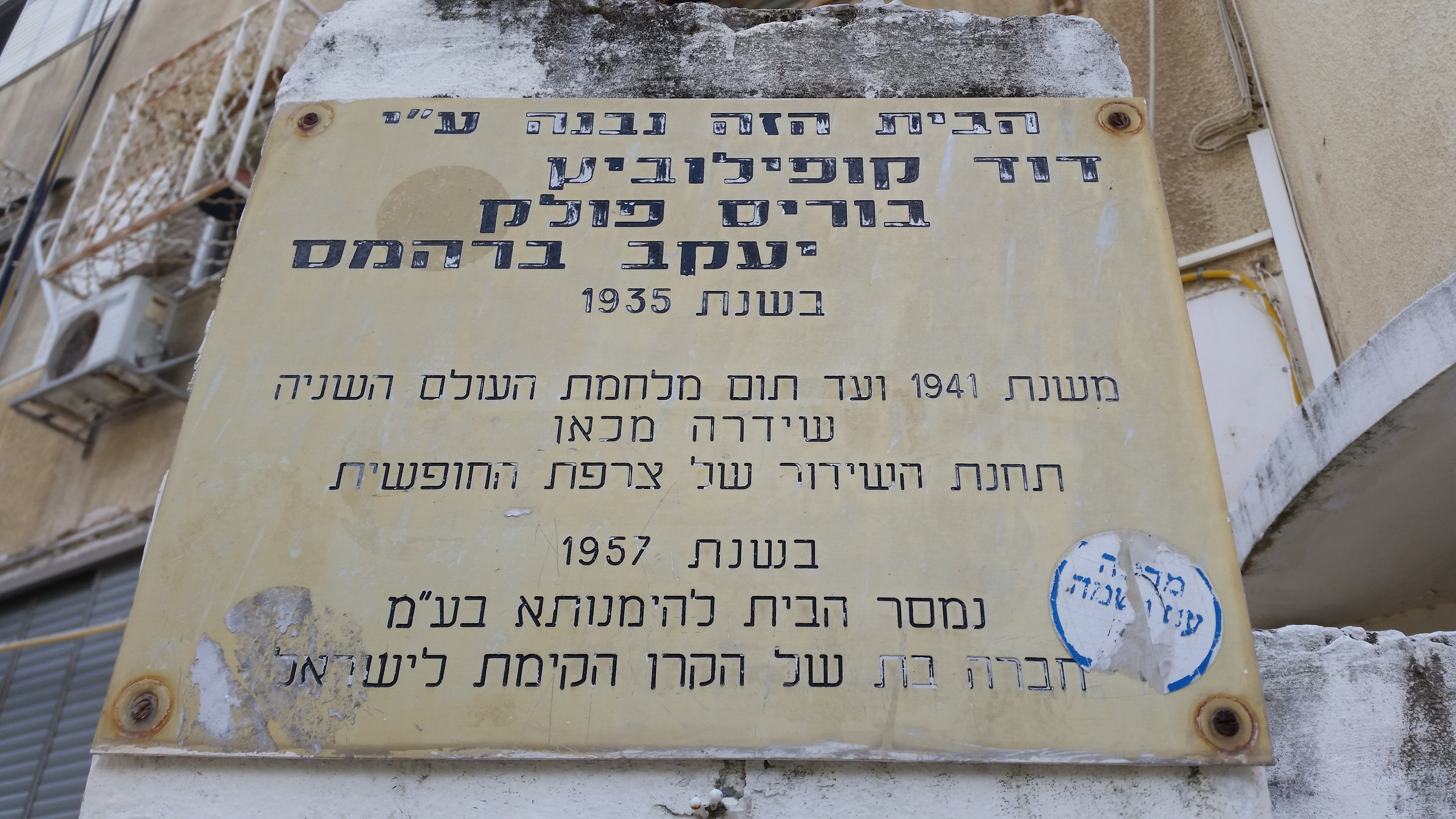 A plaque on the building in 41 Rabbi Akiva st. in Haifa, Israel, from which the clandestine Levant Free France radio station broadcasted in 1941.